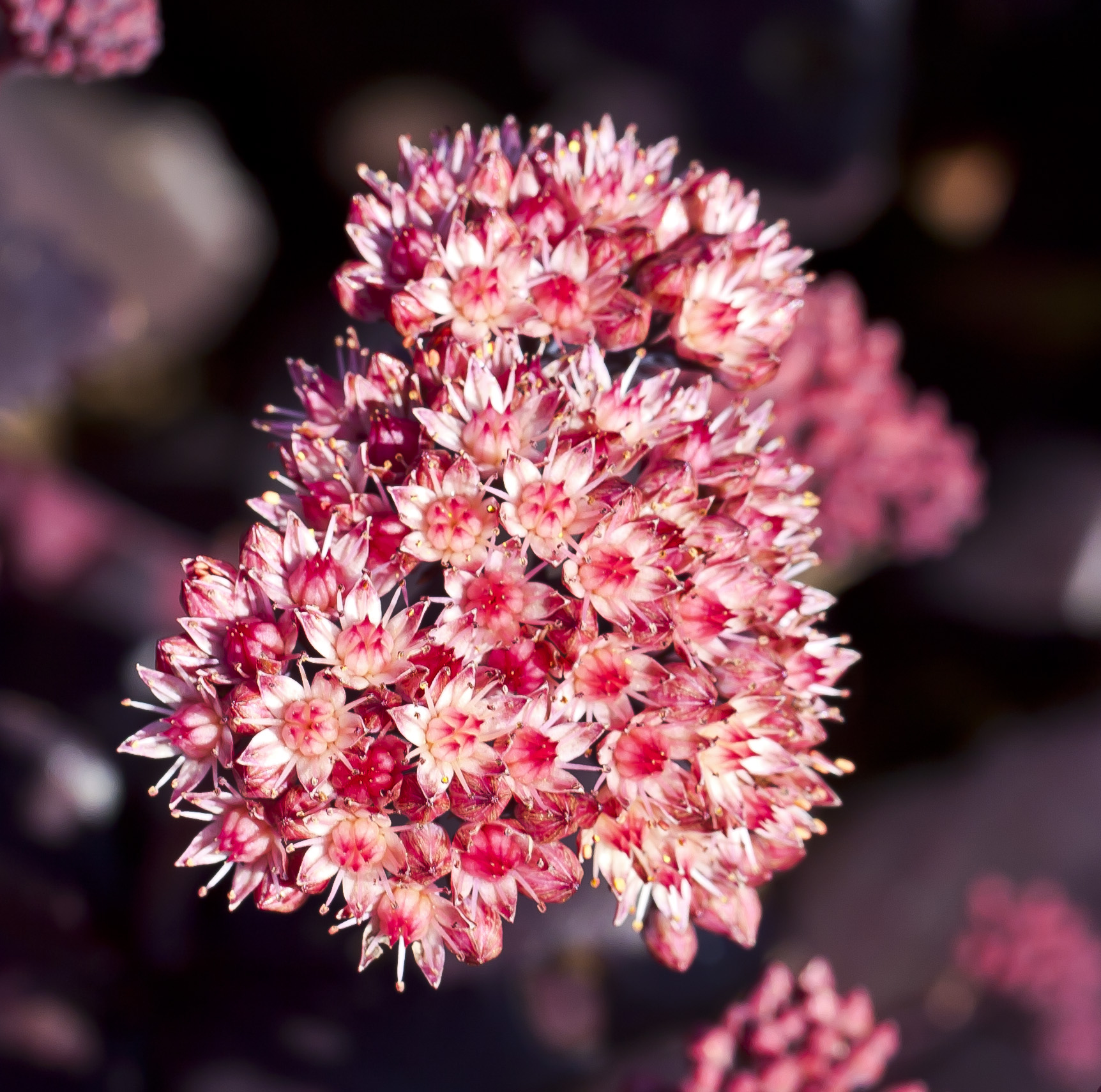 Hylotelephium telephium, Tallinn Botanic Garden, Estonia